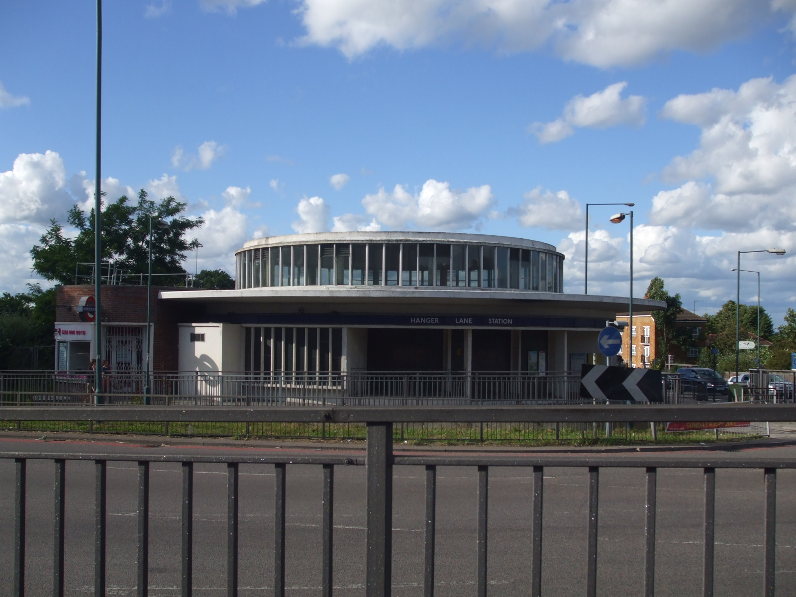 Hanger Lane tube station, viewed from south side of Hanger Lane gyratory